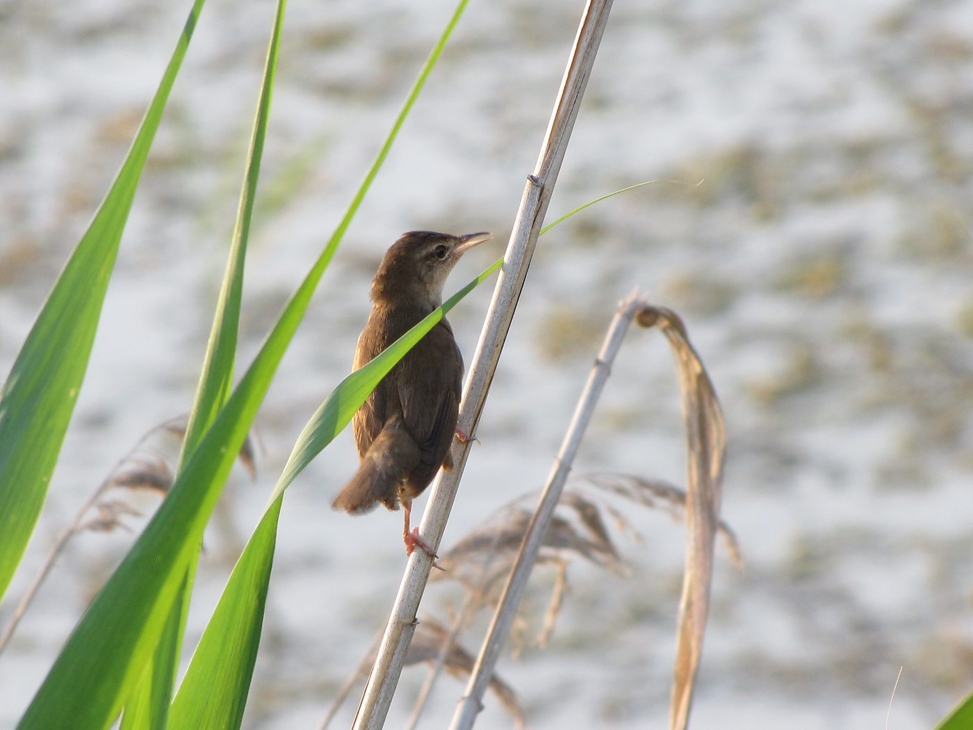 Savi's warbler